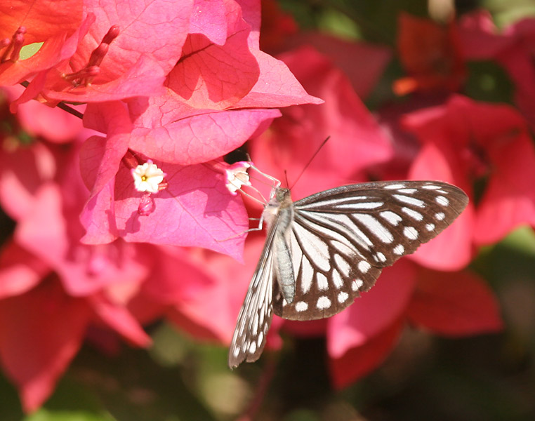 Common Wanderer Pareronia valeria in Kolkata, West Bengal, India.